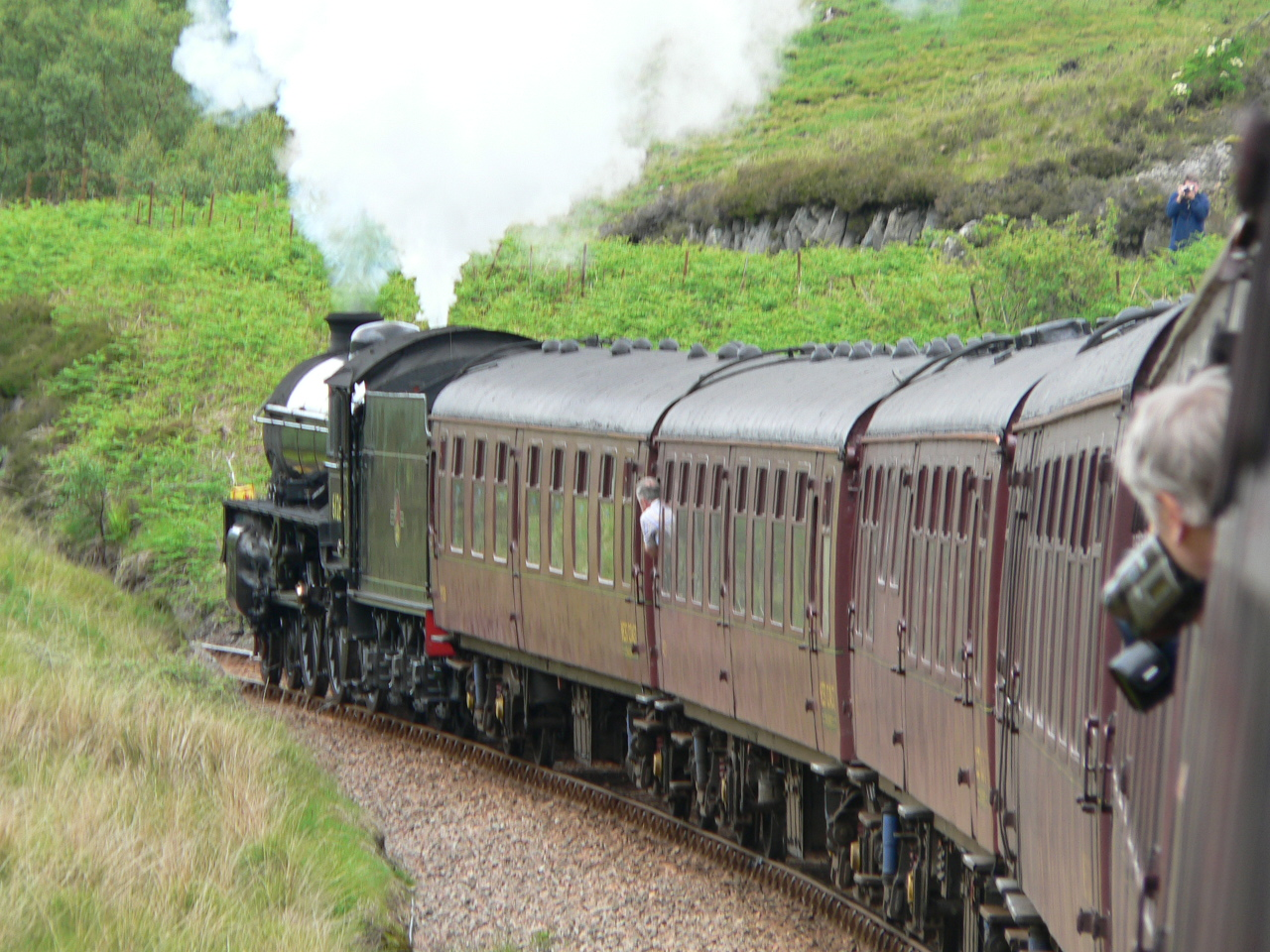 The Jacobite steam service from Fort William to Mallaig, hauled by LNER B1 4-6-0 locomotive 61264, as viewed from the last carriage.